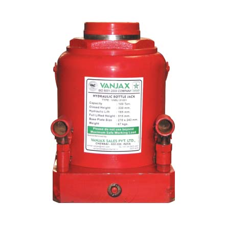 Please see our website